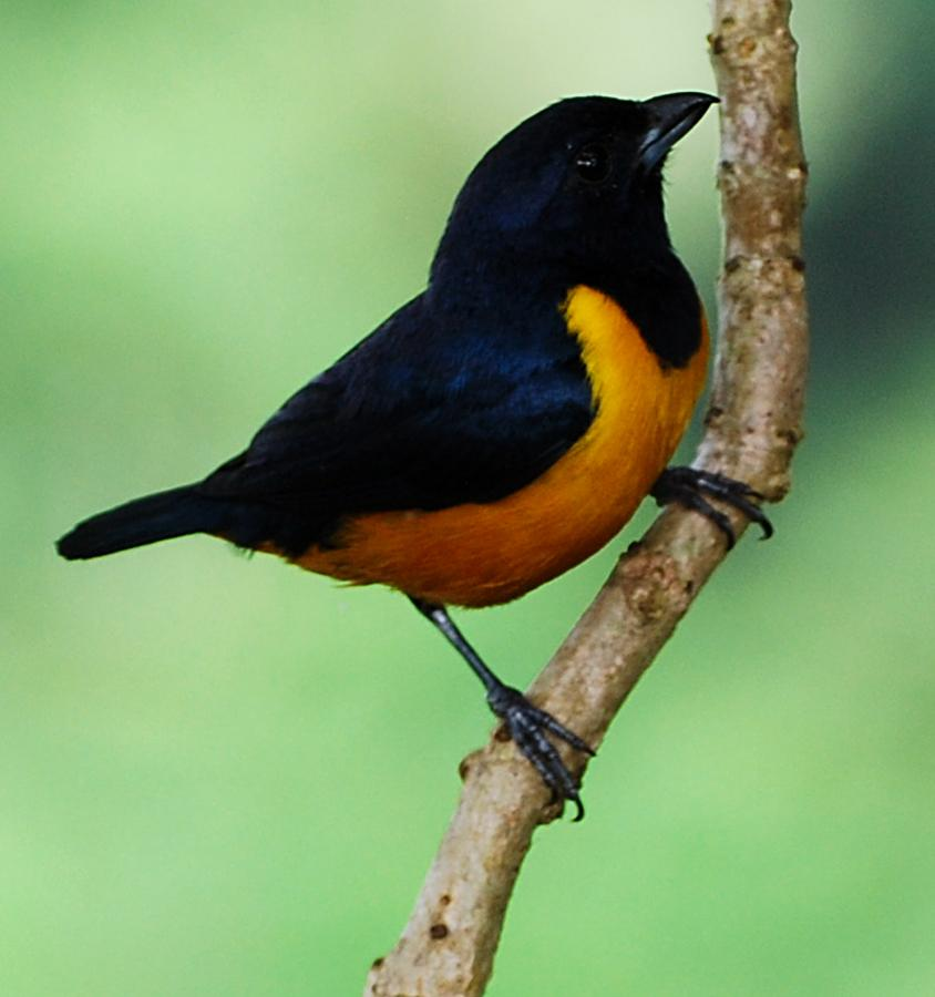 Thraupidae: Euphonia rufiventris Seen at Sacha Lodge, Napo, Ecuador